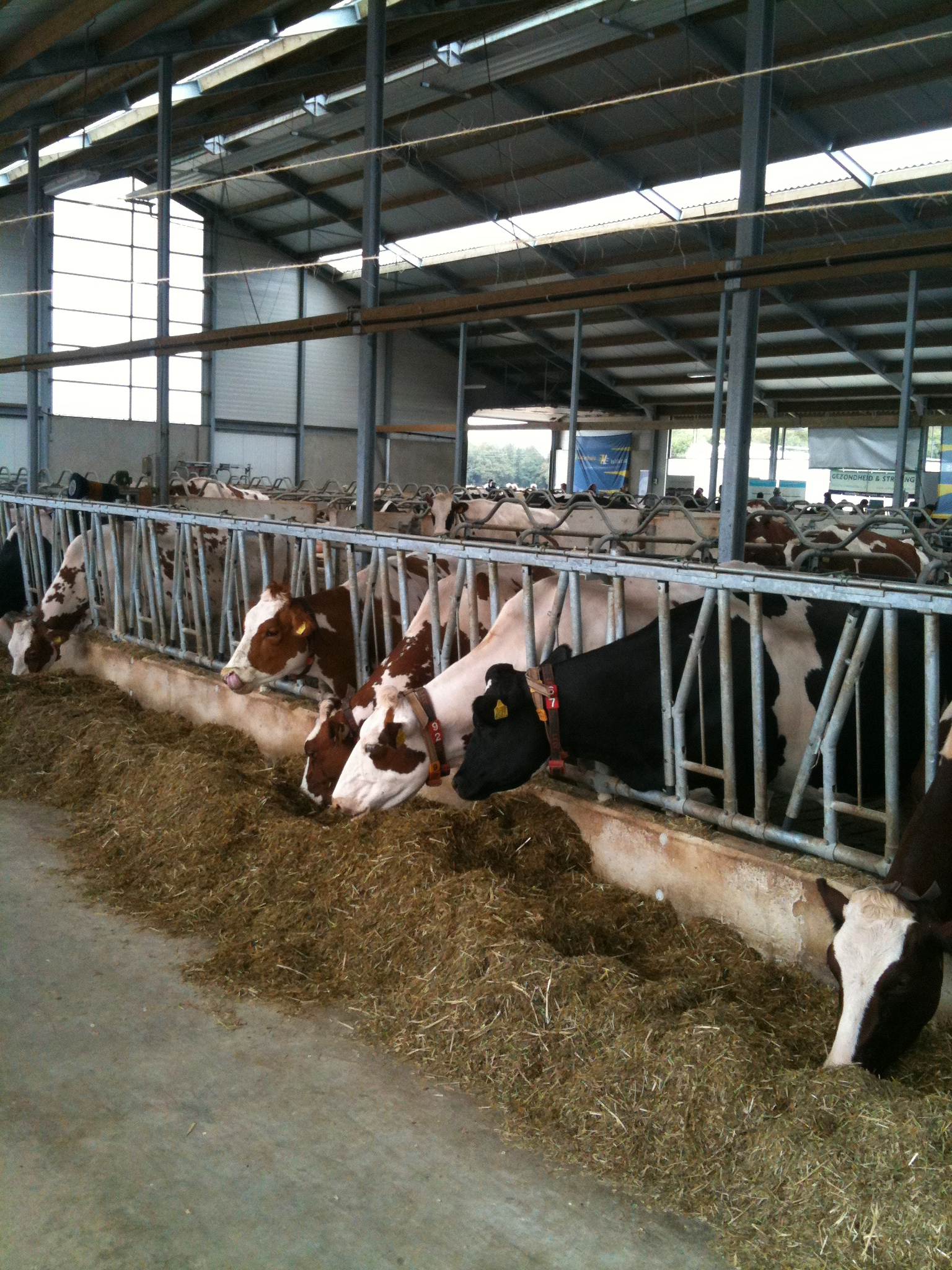 cows eating